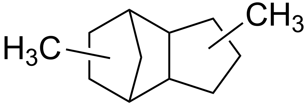 Chemical structure of TH-dimer (Tetrahydromethylcyclopentadiene dimer; Tetrahydrodimethyldicyclopentadiene; THDMDCP; RJ-4; RJ4)